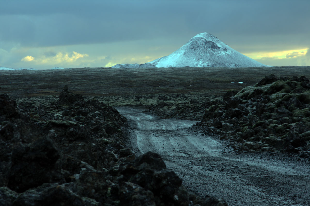 A picture of Keilir.